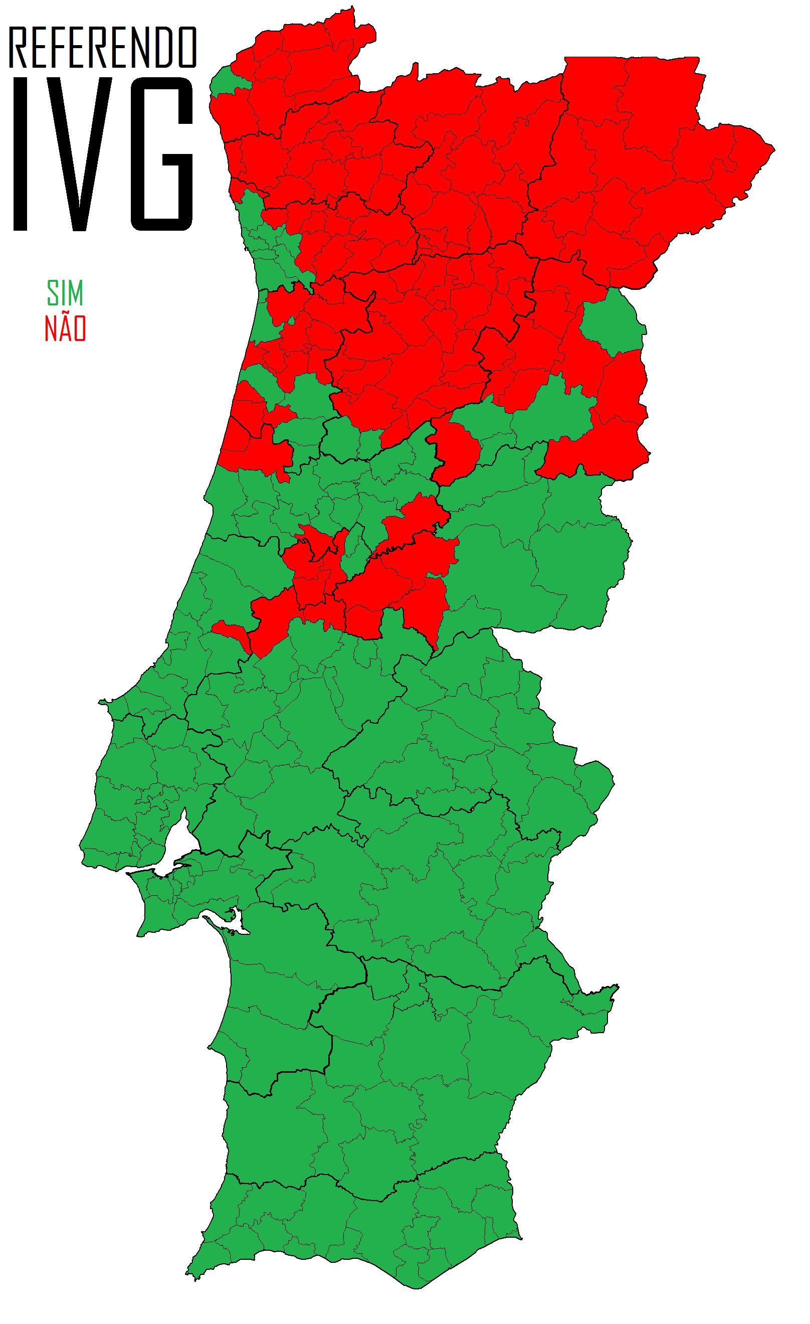 Results by Municipality of the Portuguese abortion referendum, 2007 (Azores and Madeira not shown)